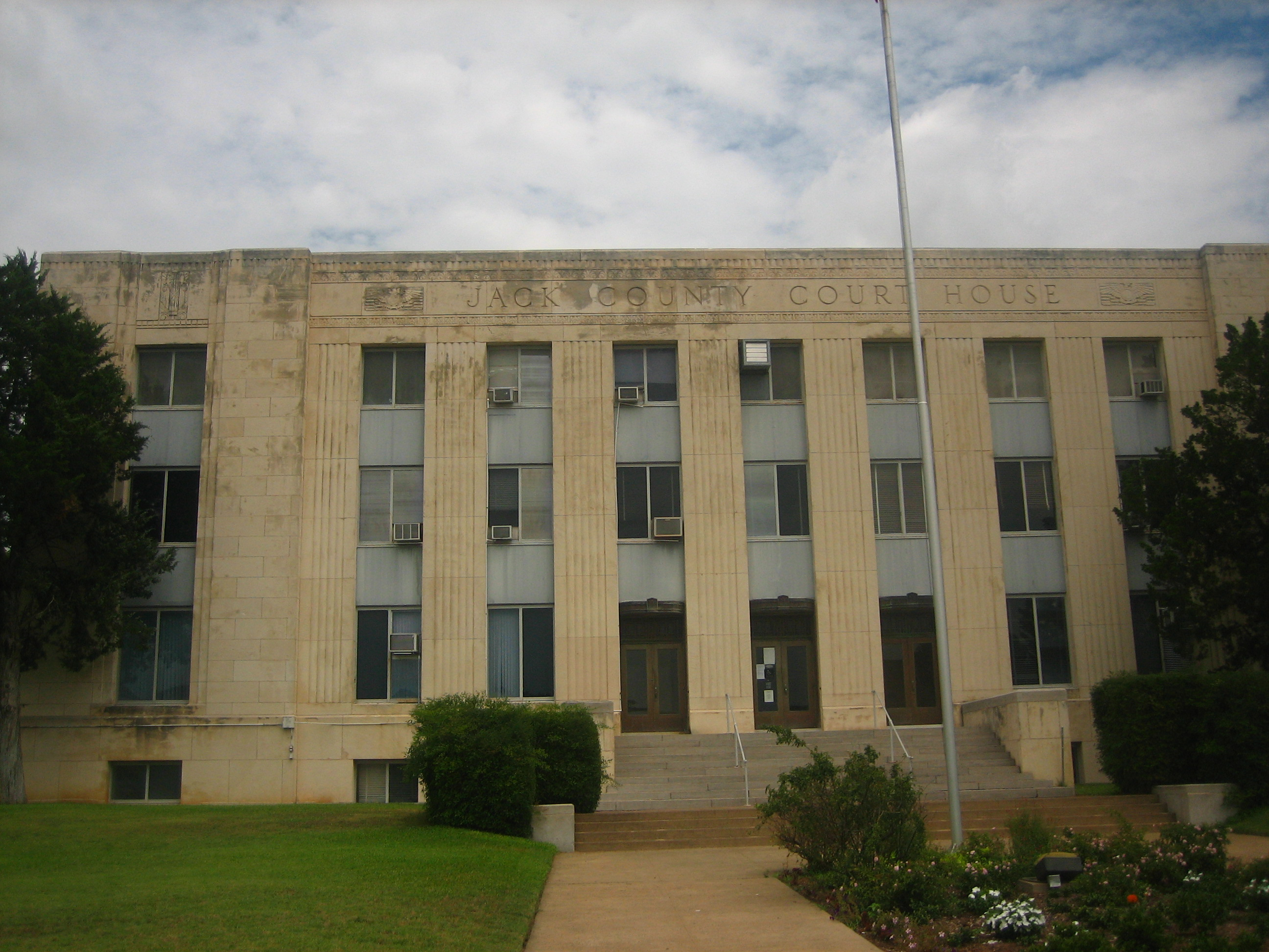 I took photo in July 2008.Billy Hathorn (talk) 01:29, 5 July 2009 (UTC)